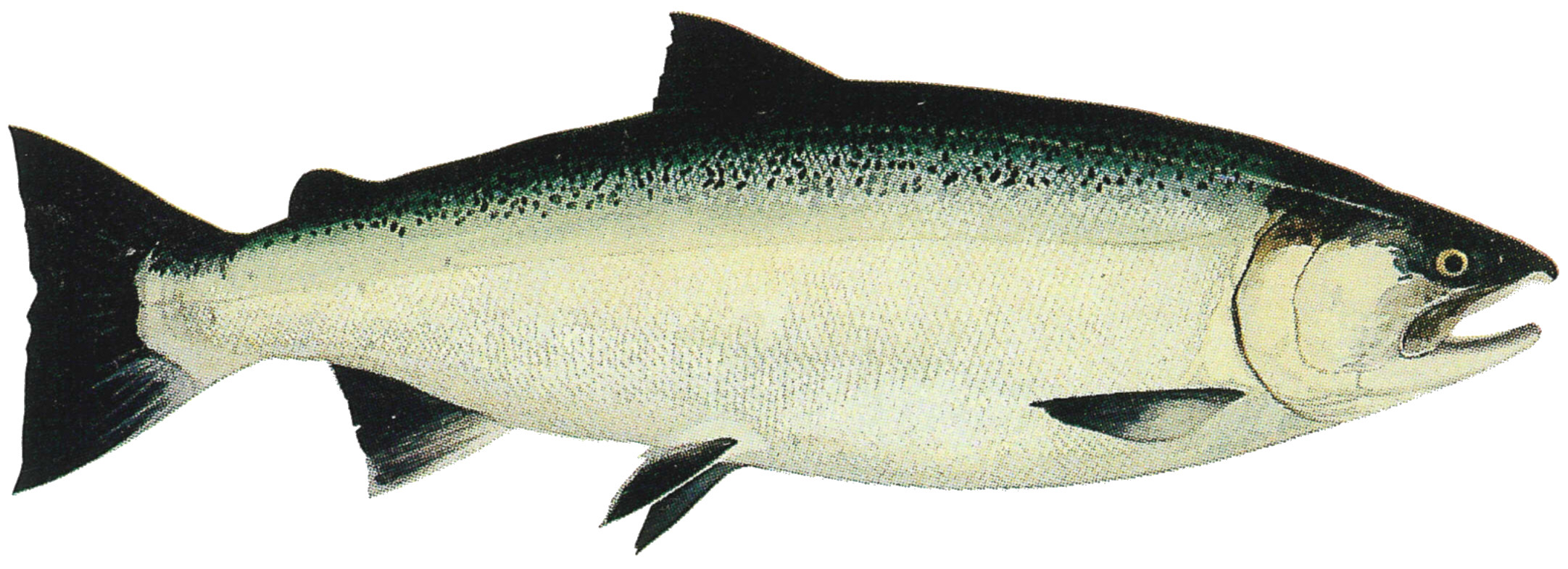 Drawing of ocean phase Coho (silver) salmon (Oncorhynchus kisutch) from a pamphlet about the Lake Washington Ship Canal Fish Ladder at the Hiram M. Chittenden Locks, Seattle, Washington, scanned at 600 dpi and cleaned up.